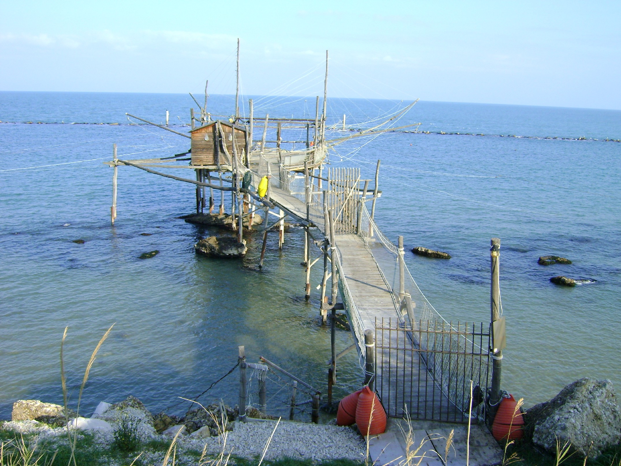 A trabocco, Rocca San Giovanni, province of Chieti.